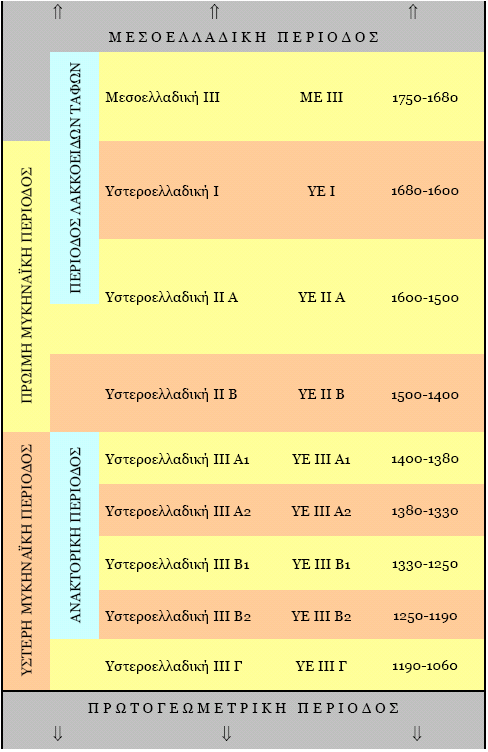 Mycenean Period table